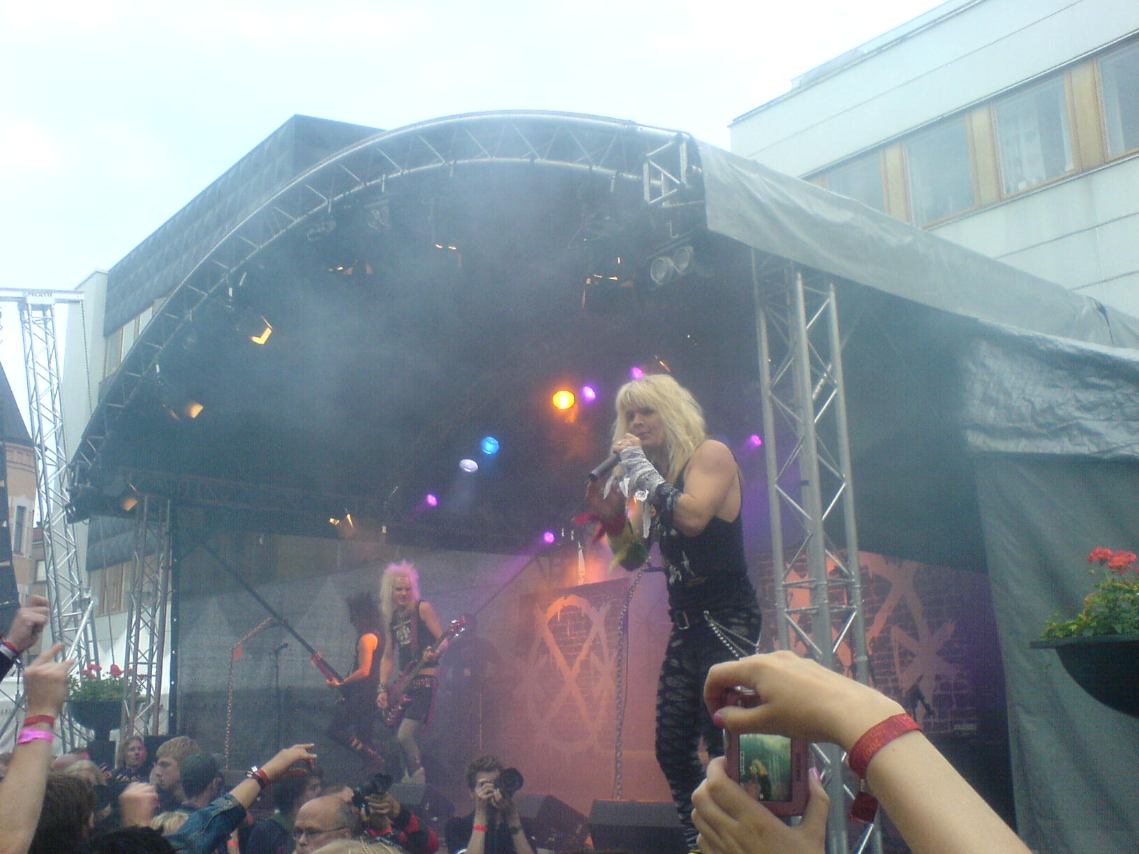 Rock band Crashdïet at Peace and Love festival, Borlänge, Sweden, June 2007.